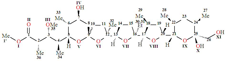 Structure of Monensin A metyl ester